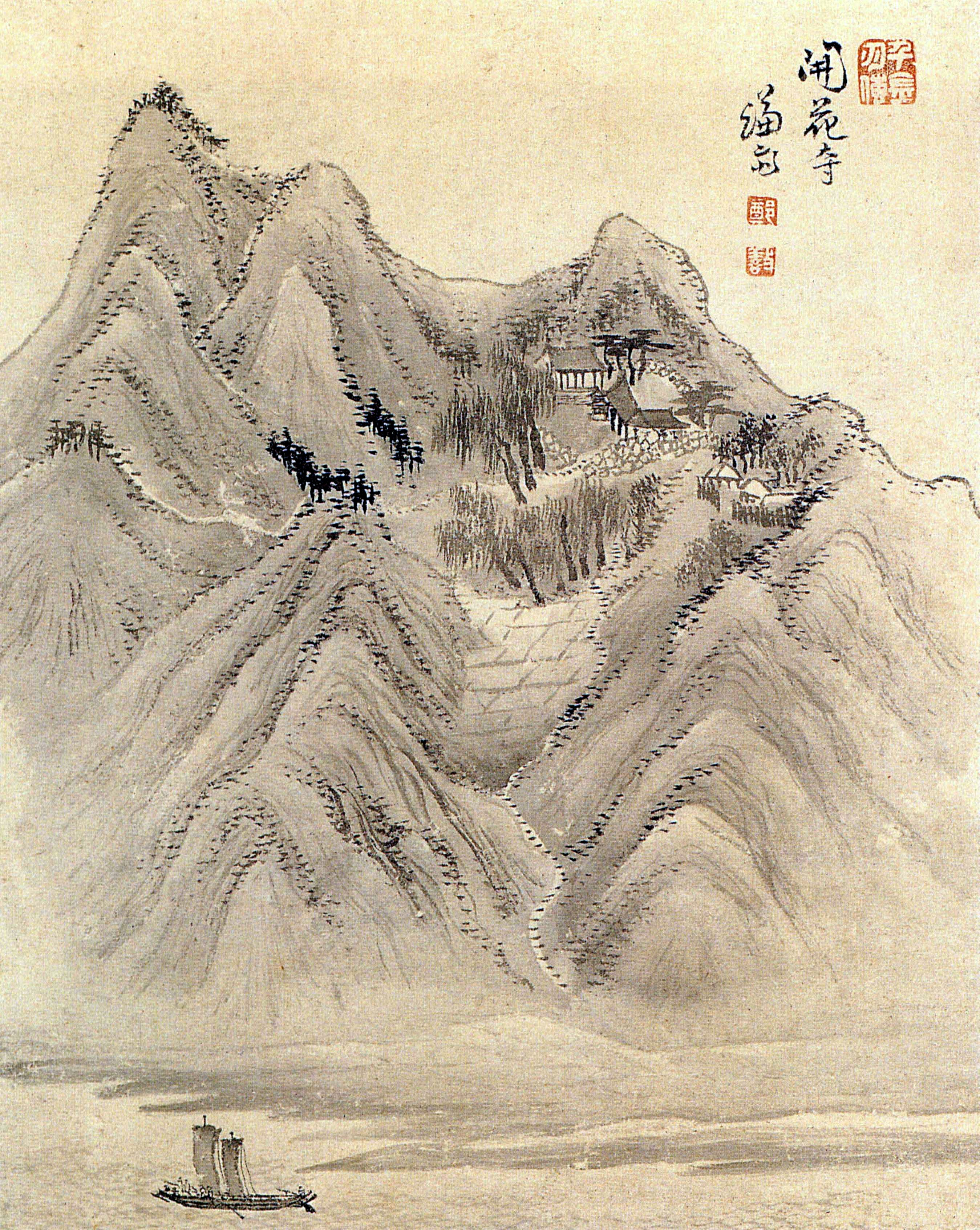 Gaehwasa temple by Jeong Seon